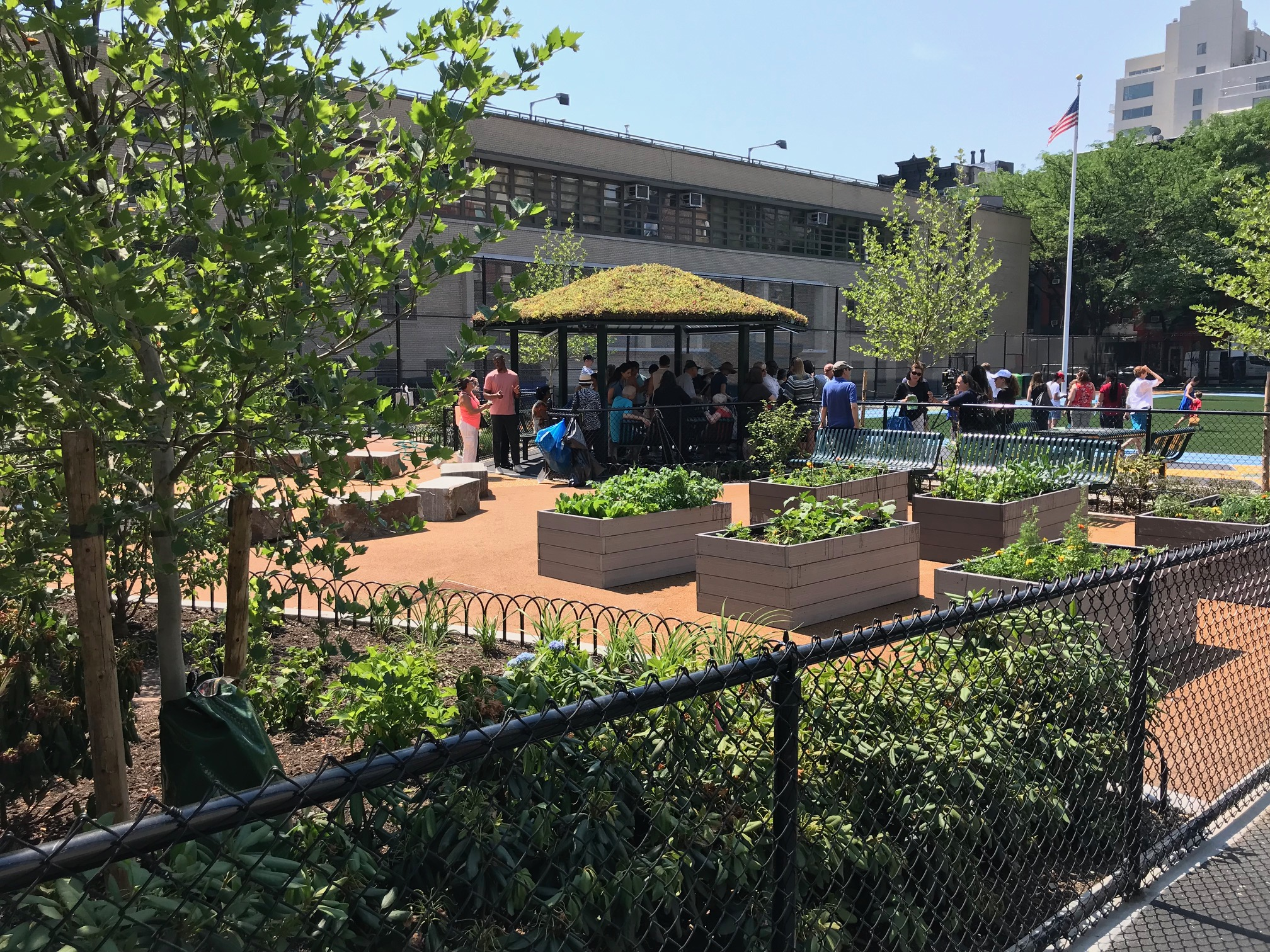 PS 19 Asher Levy schoolyard garden, New York